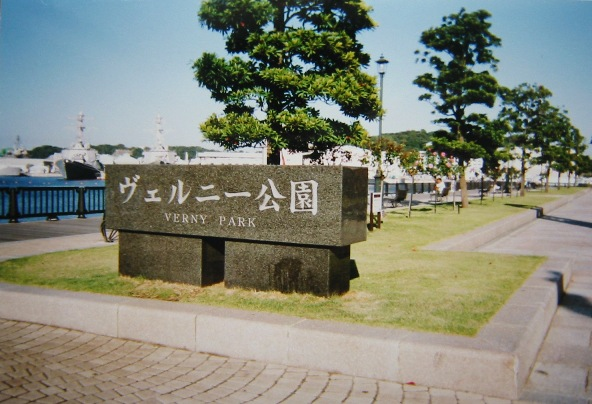 Verny Park in Yokosuka. Personal photograph, 2004.